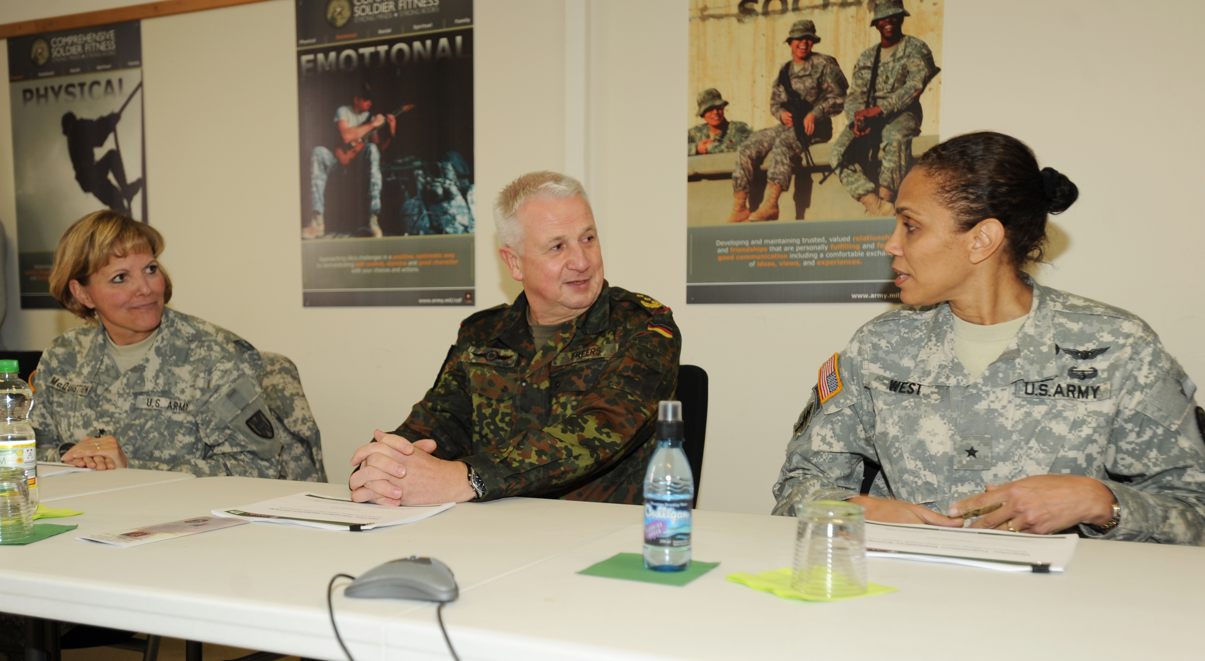 Maj. Gen. Patricia McQuistion, the commanding general of 21st Theater Sustainment Command, Lt. Gen. Werner Freers, the chief of staff for the German army, and Brig. Gen. Nadja West, the commanding general of Europe Regional Medical Command, have a conversation before a briefing on the function and structure of the Warrior Transition Units in Europe Nov. 30 at the WTU on Kleber Kaserne. Freers attended the briefing and toured the WTU building there.